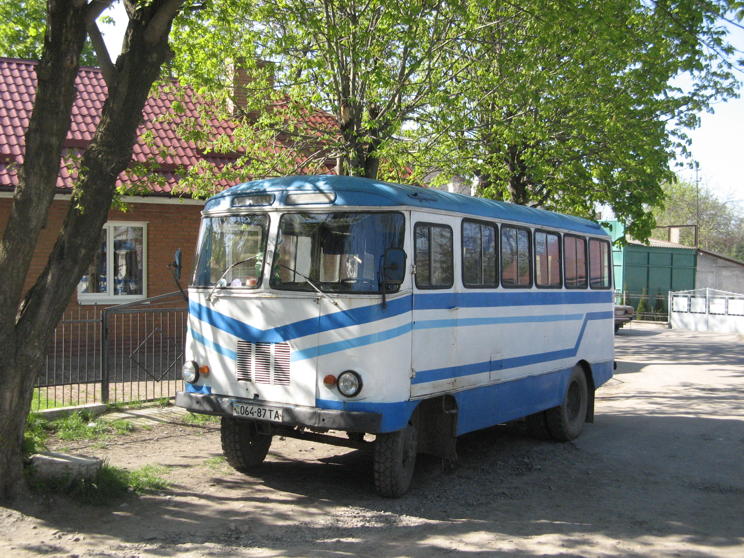 Bus ASCh-03 "Chernigov" in Zhovkva, Ukraine.